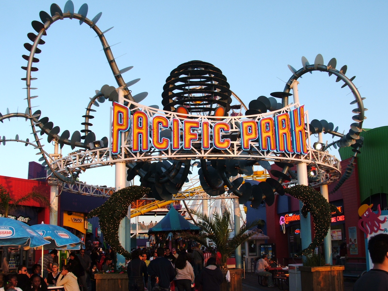 Entry gate for Pacific Park, a Californian amusement park